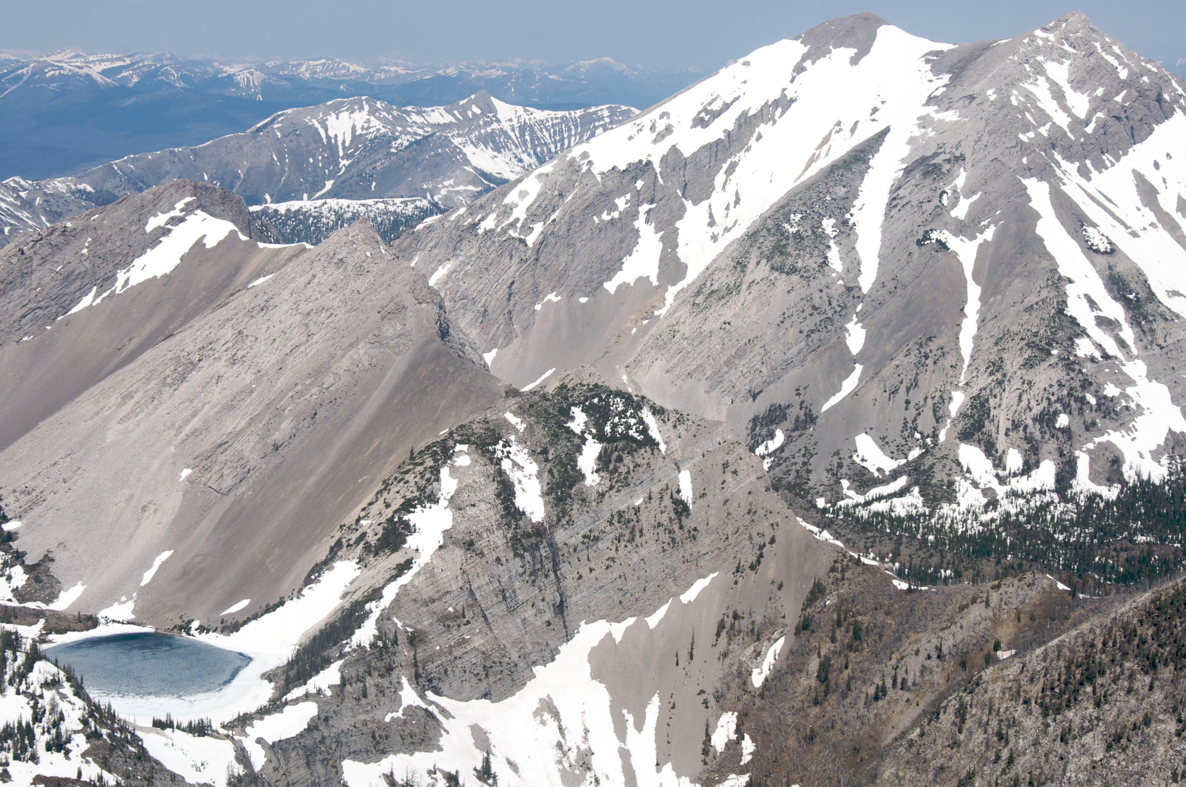 Mountains in the Bob Marshall Wilderness, Montana